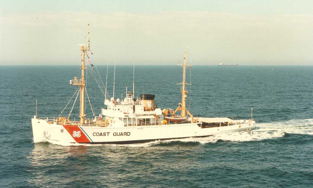 United States Coast Guard Cutter Escape, formerly USS Escape (ARS-6).